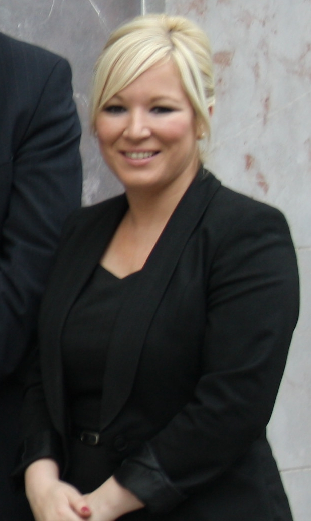 Michelle O'Neill